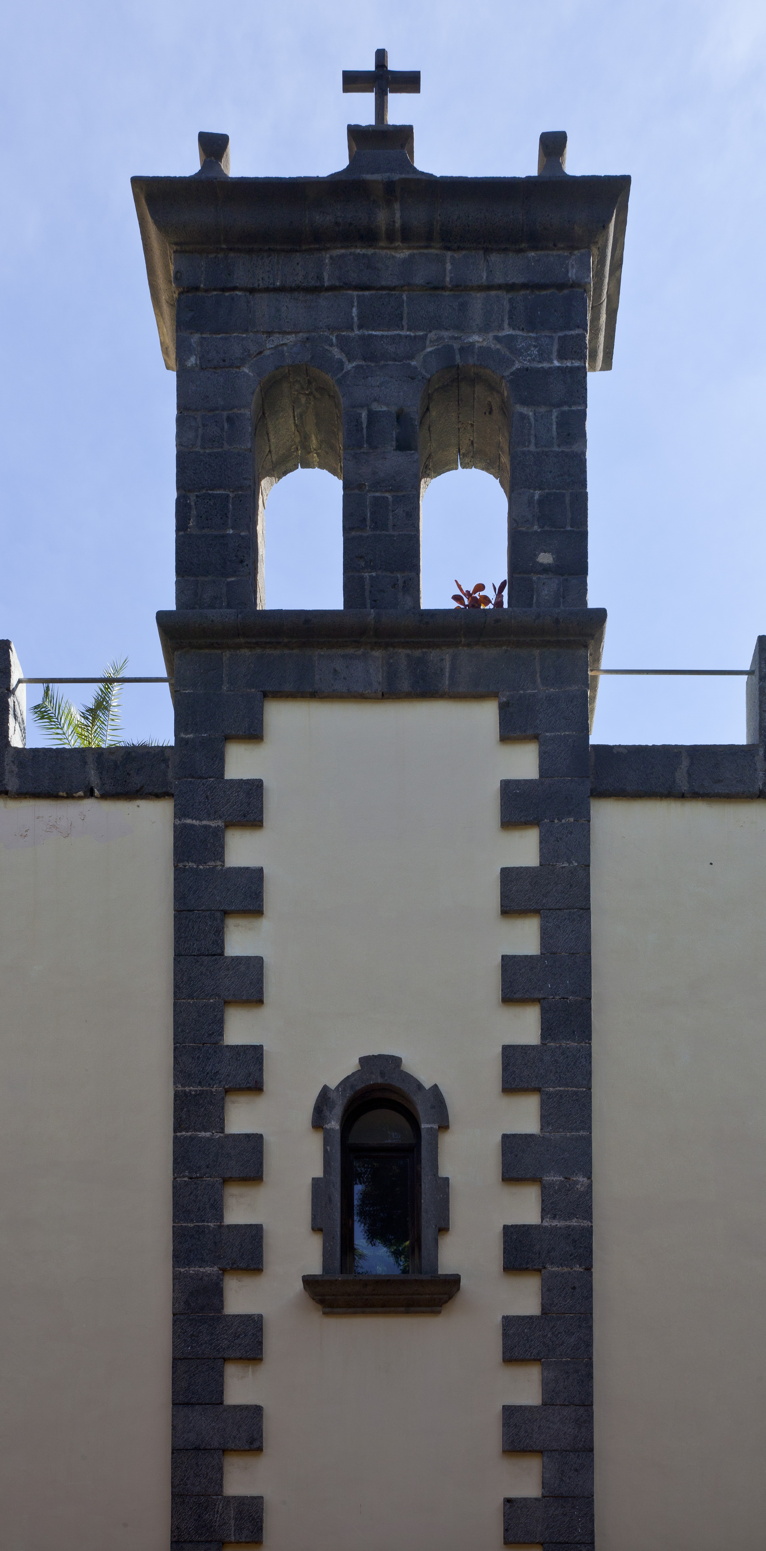 Chapel of the Third Order and Franciscan Cloister, Santa Cruz de Tenerife, Spain